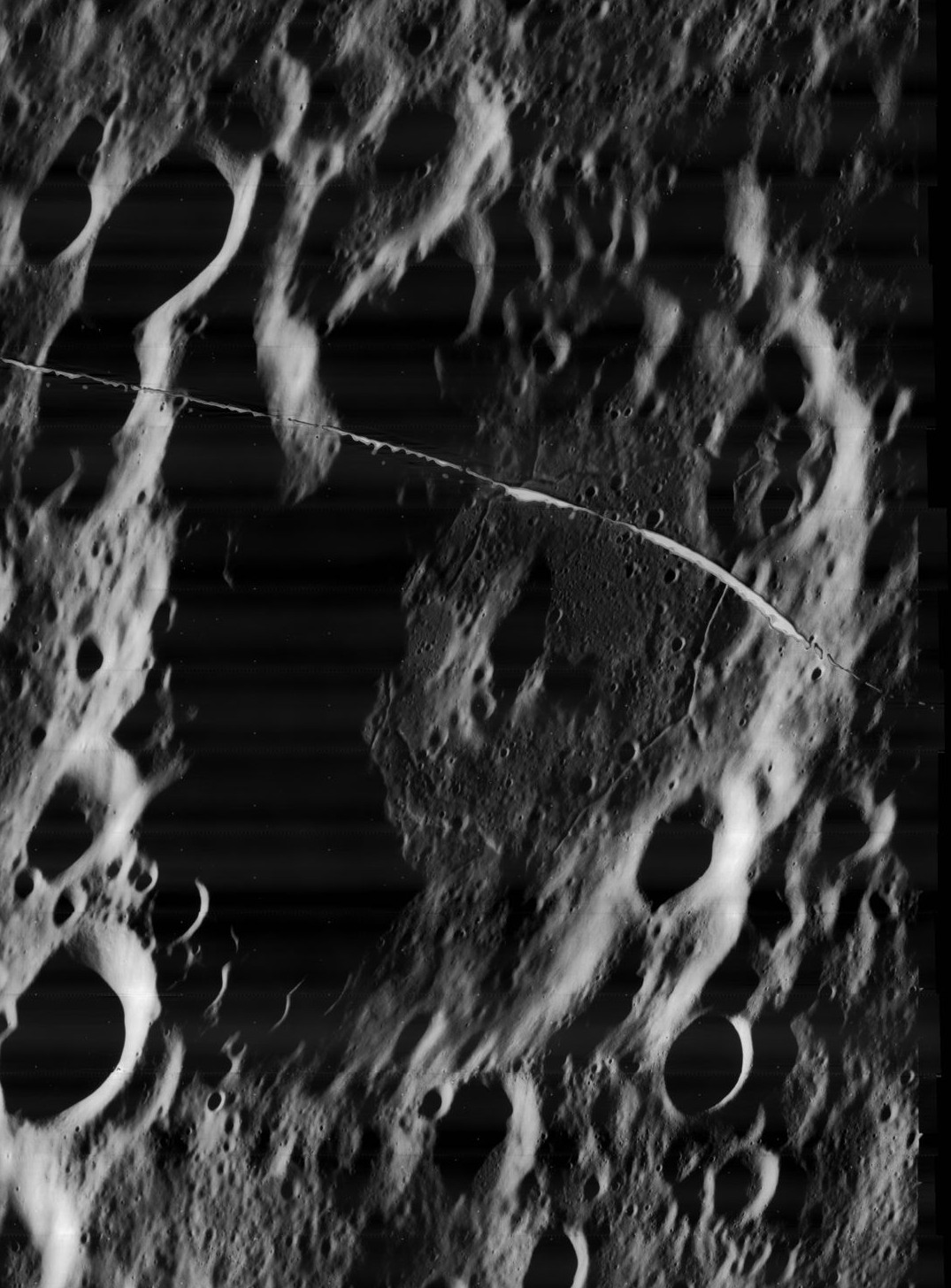 Oblique view of Chappell, on the moon.